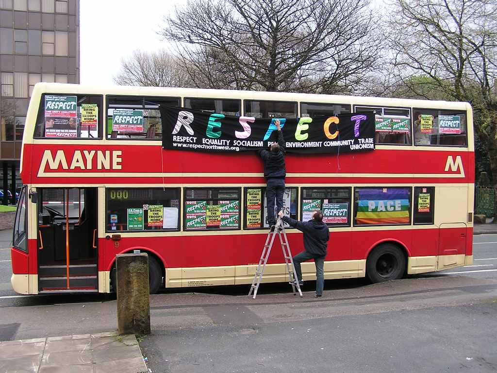 Respect campaigners decorating a bus in Manchester for the 2005 elections. It is Mayne Coaches bus 9 (R109 YBA), a Scania N113/East Lancs Cityzen. Picture taken by JK the Unwise on 16 April 2005.